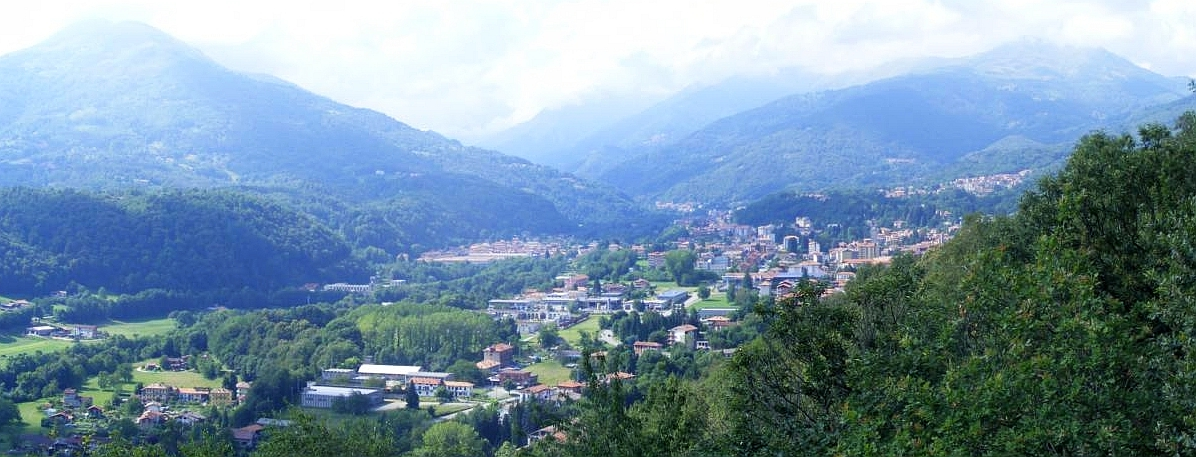 Low Cervo Valley seen fron Randolina (BI, Italy)